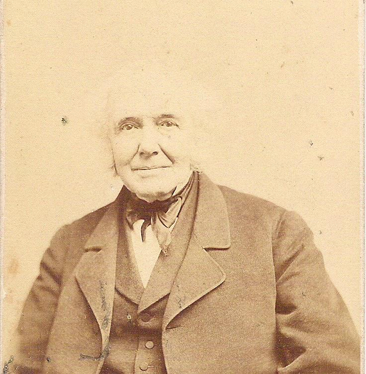 Portrait of Wm. Underwood c1860.